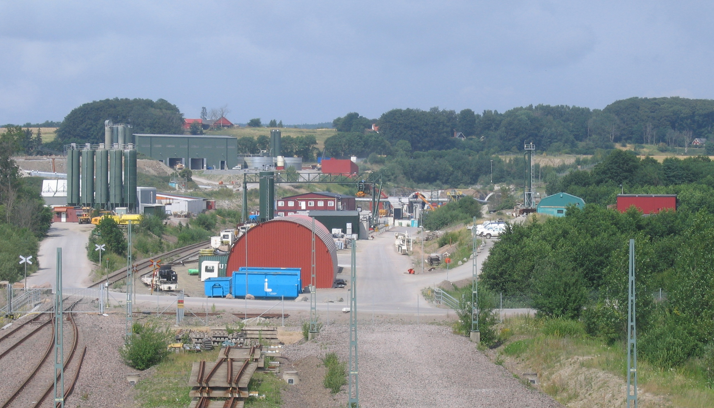 Work site at the south end of Hallandsåstunneln near Förslöv, Skåne. Own photo taken 2006-07-08, this version (June 2007) has all vertical features properly aligned using hugin to transform the original out-of-camera material.